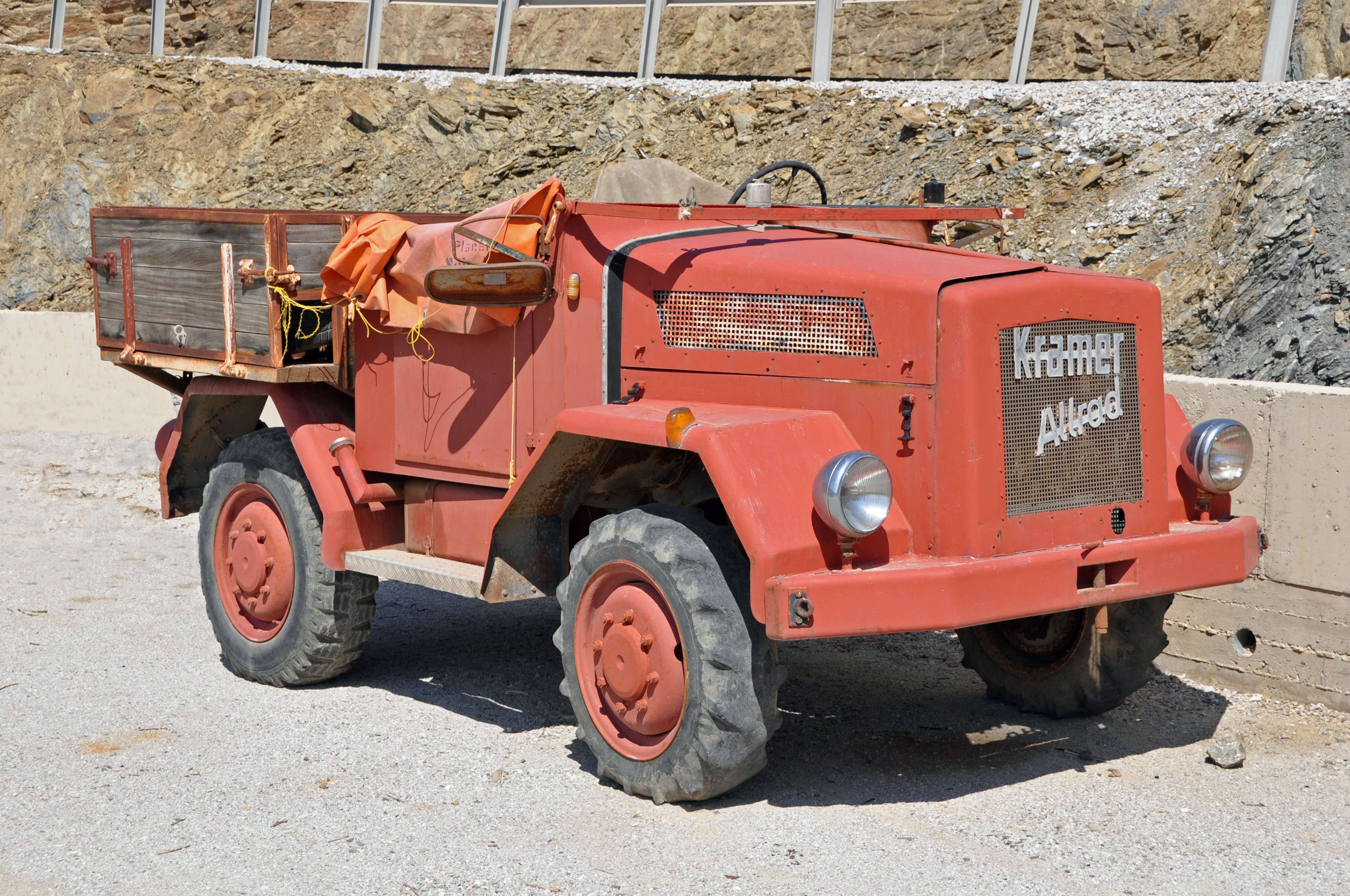 All wheel drive vehicle, built by the German manufacturer Kramer